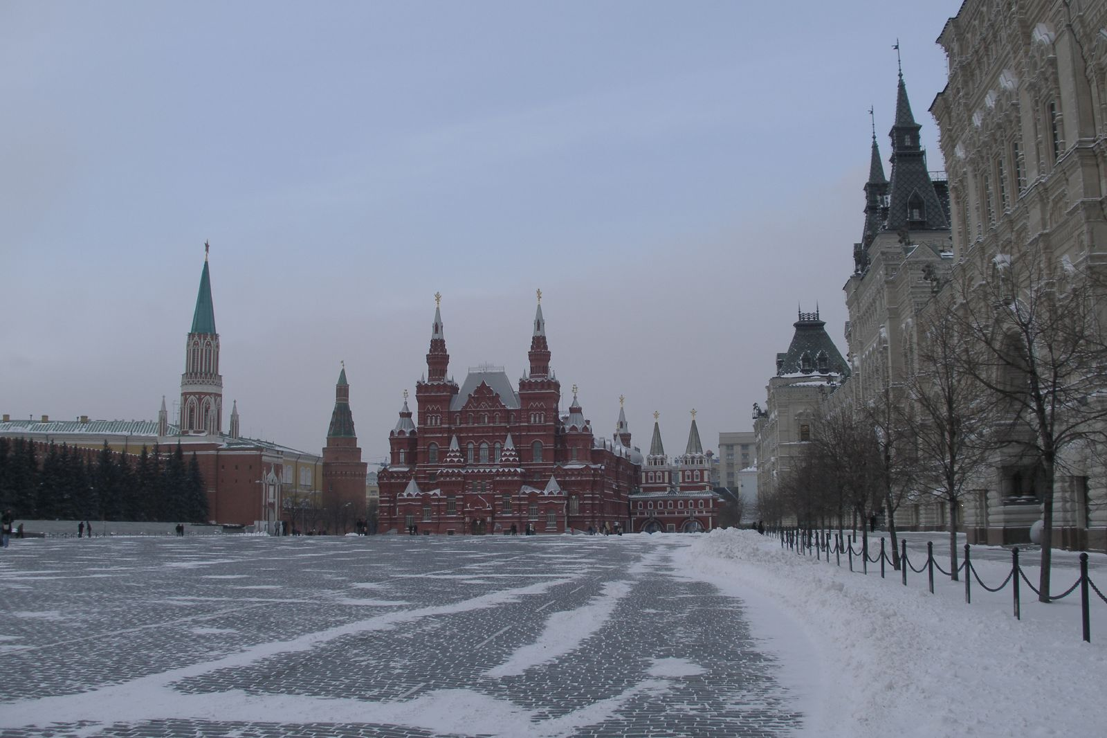 Red Square is the most famous city square in Moscow. The square separates the Kremlin, the former royal citadel and currently the official residence of the President of Russia, from a historic merchant quarter, known as Kitay-gorod. As major streets of Moscow radiate from here in all directions, being promoted to major highways outside the city, the Red Square is often considered the central square of Moscow and of all Russia.